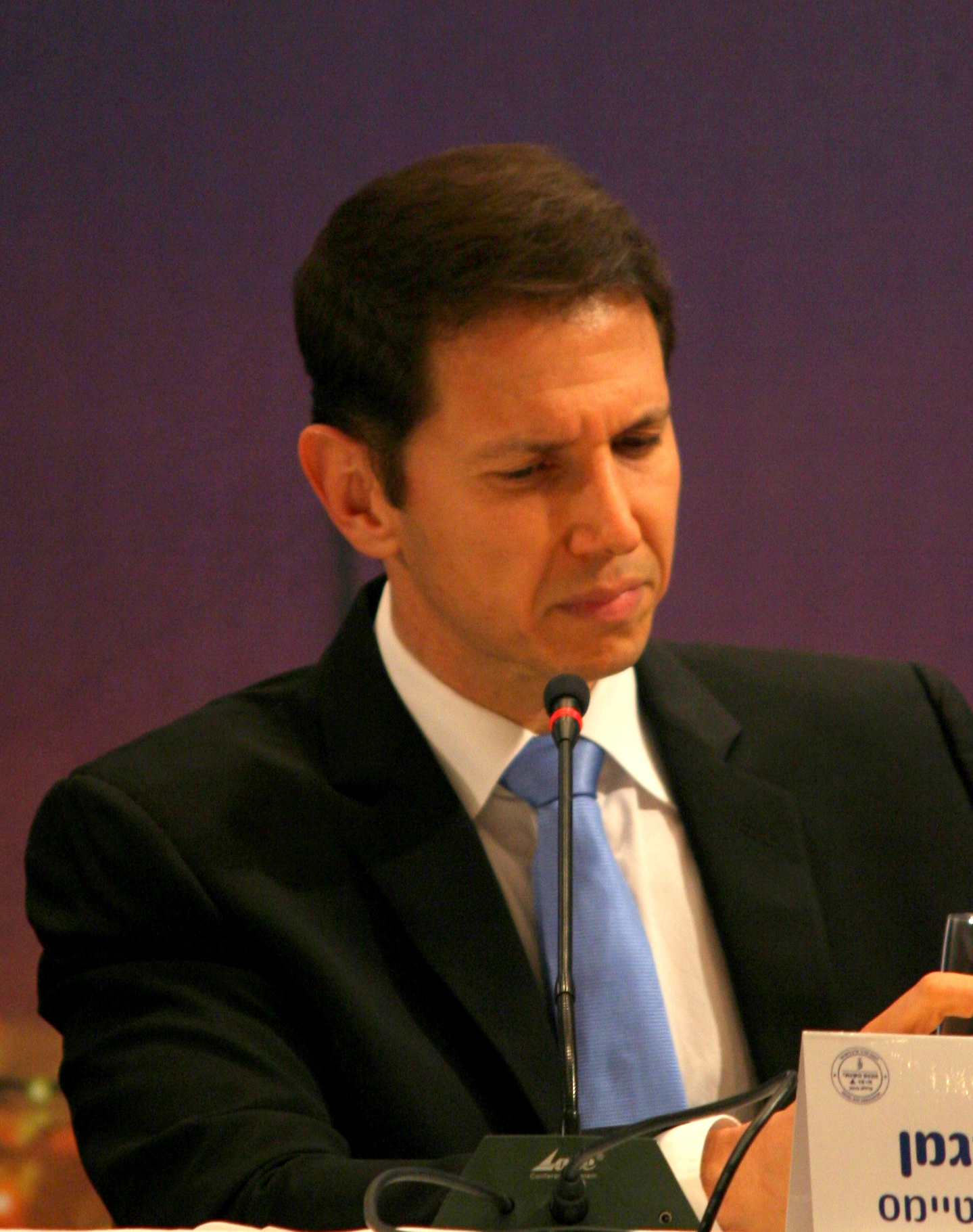 Ronen Bergman, Israeli journalist